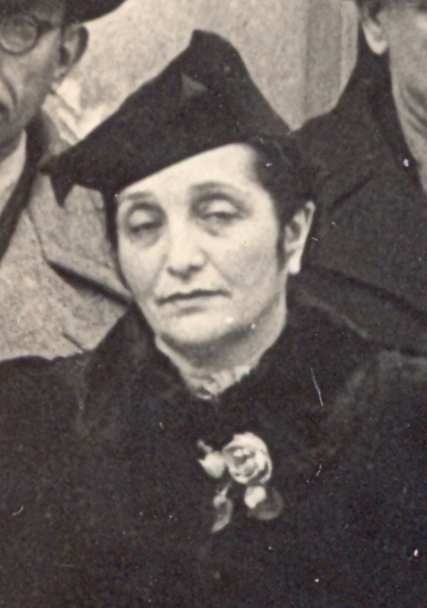 Bulgarian poet Dora Gabe (1888-1983)